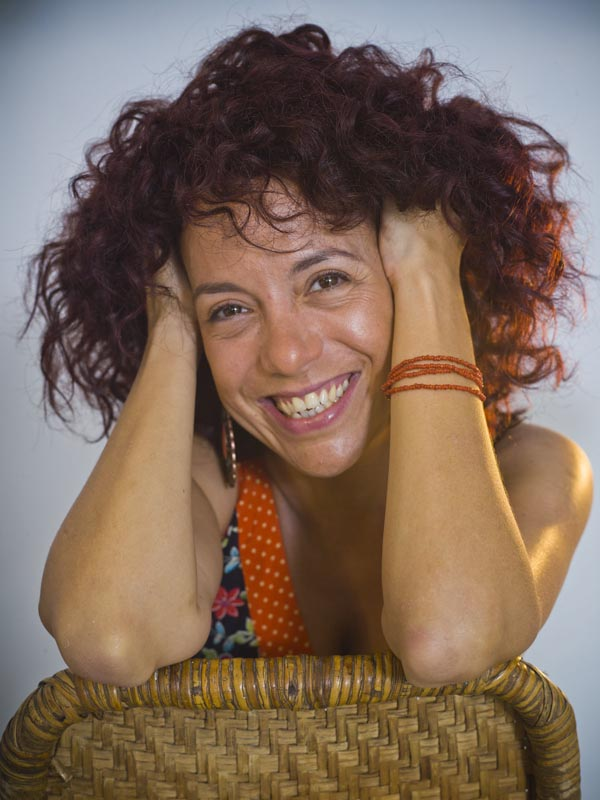 Laura de la Uz, actress, at his home in Havana, Cuba